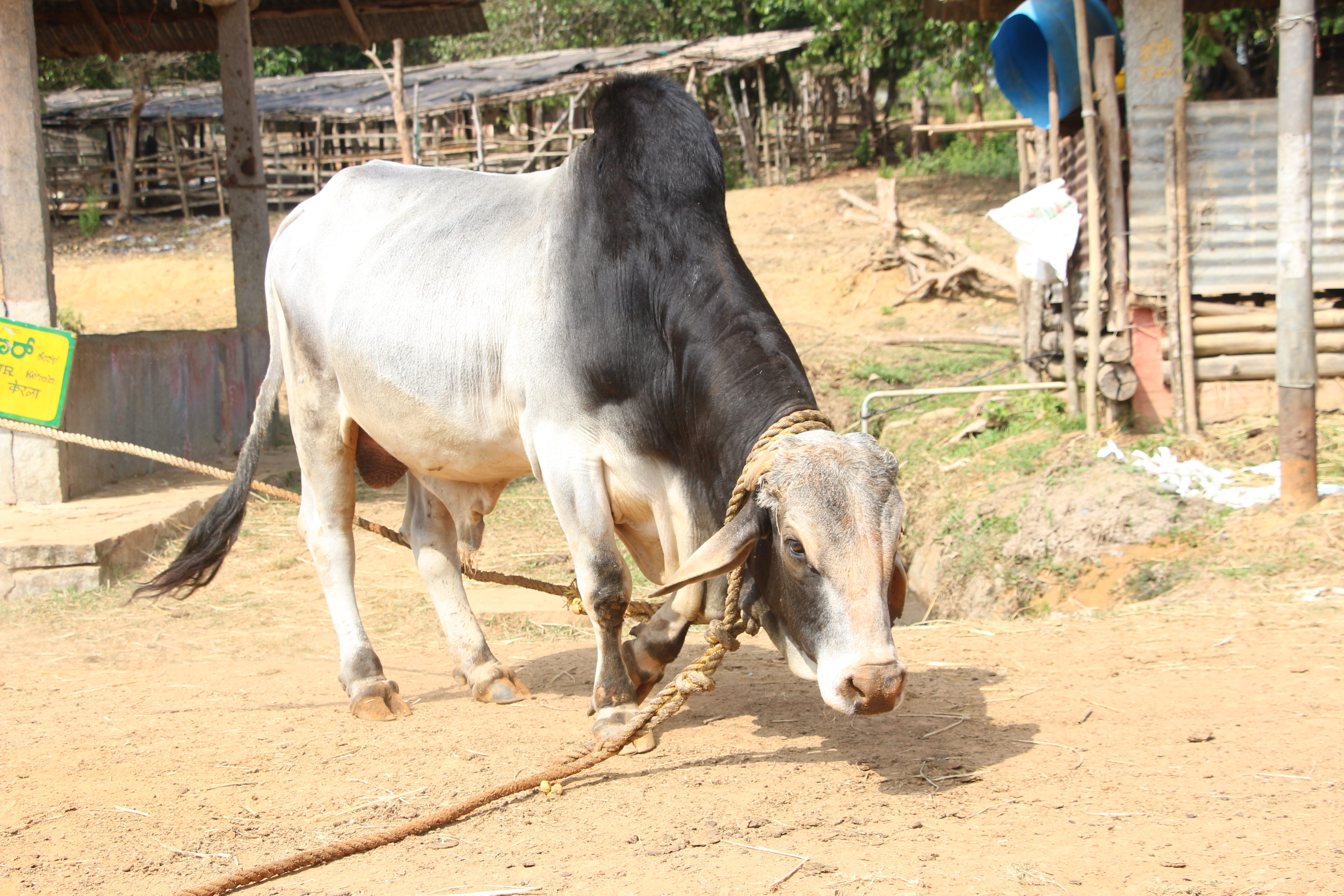 Indian cow breed Tharparkarಕನ್ನಡ: ಭಾರತೀಯ ಗೋತಳಿ ಥಾರ್‌ಪಾರ್ಕರ್